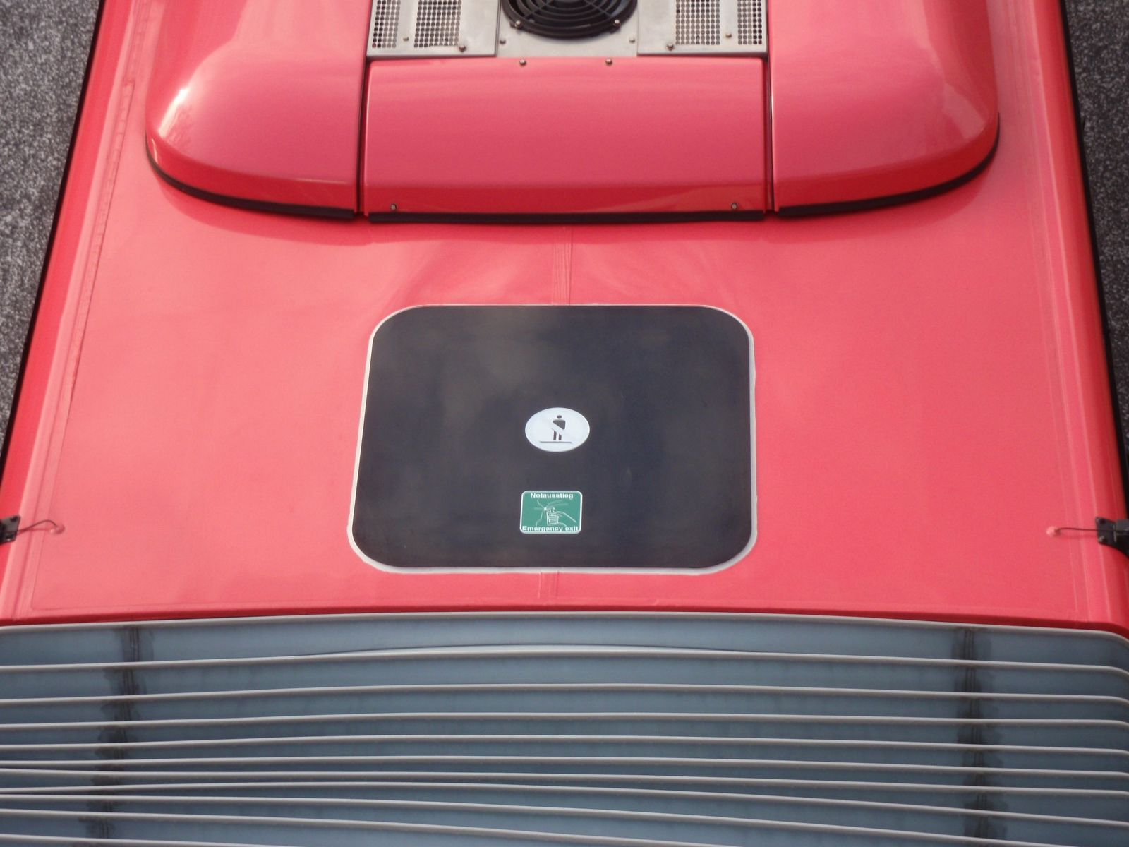 Emergency exit on roof of Mercedes-Benz O530 "CITARO"